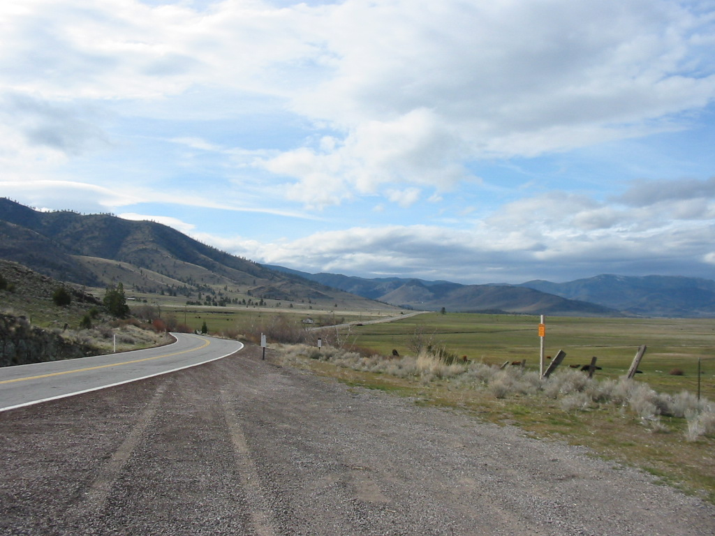 Old Highway 99 in Siskiyou County, California, an old segment of U.S. 99.